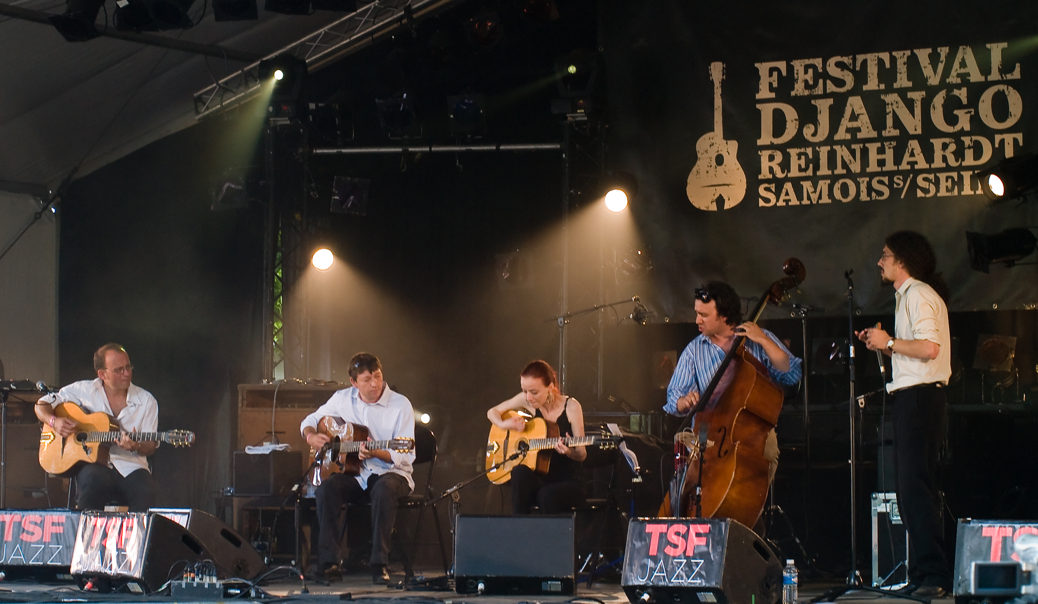 Kamlo quintet at the 30th edition of the Django Reinhardt Festival in Samois-sur-Seine, 2009, France. Pierre "Kamlo" Barré: guitar, Franck Winterstein: guitar, Victorine Martin: guitar, Mathieu Bloch: double-bass, Thomas Laurent: harmonica.